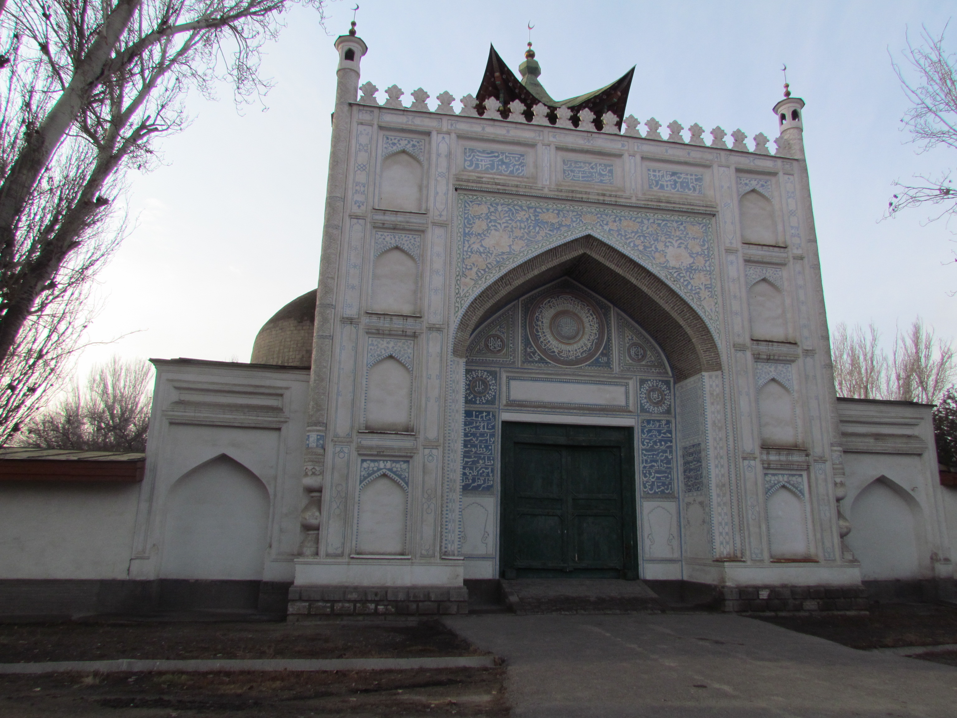 Zharkent Mosque